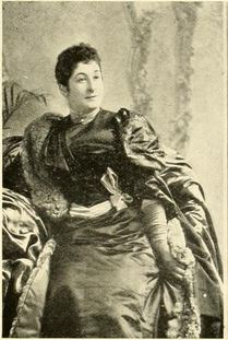 Mme. Dupuy de Lome